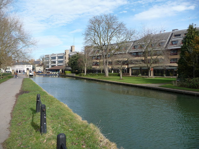 Cambridge Doubletree Hilton hotel Previously called the Garden House hotel.